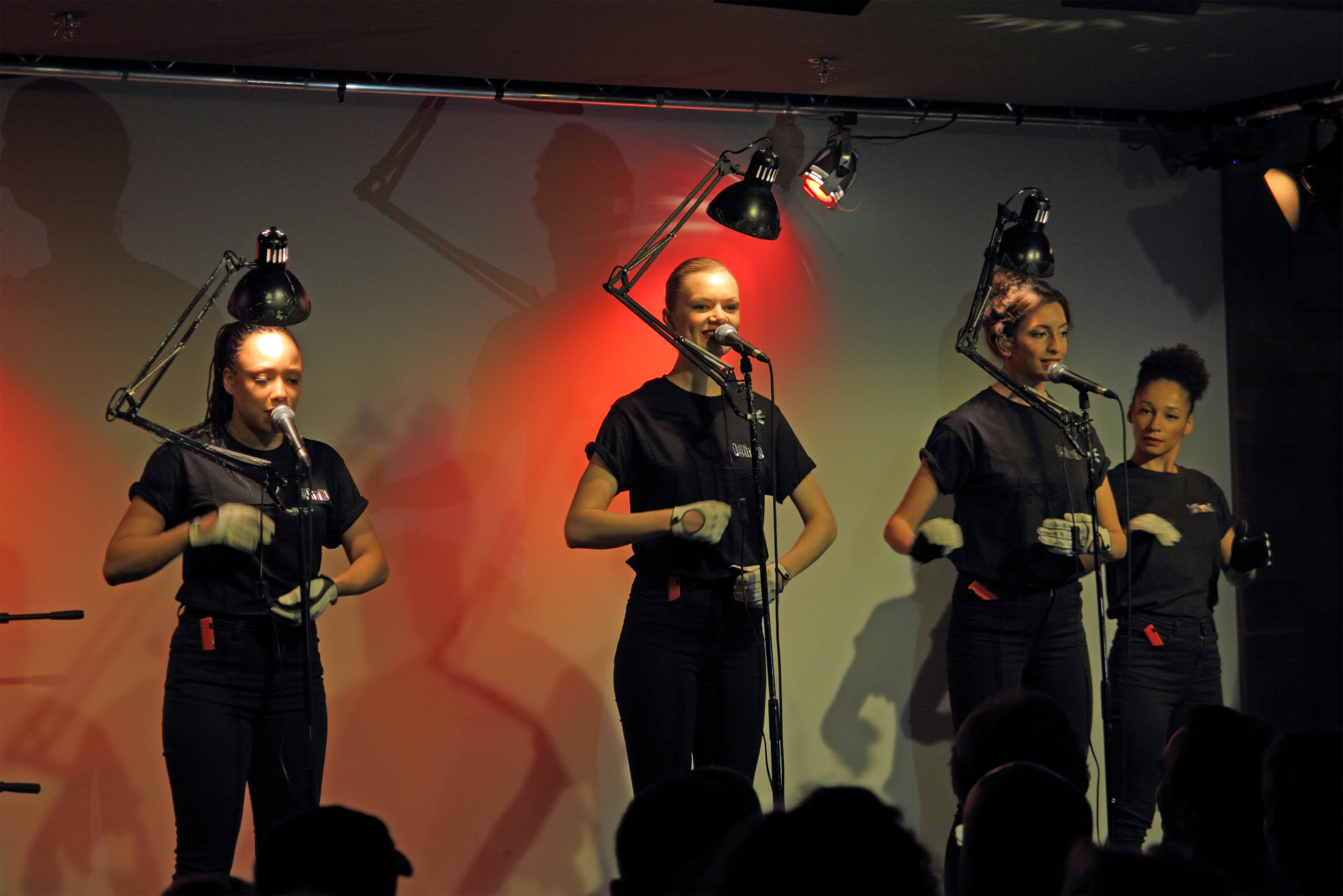 Laing (Band) - CD promotion in Berlin, Germany